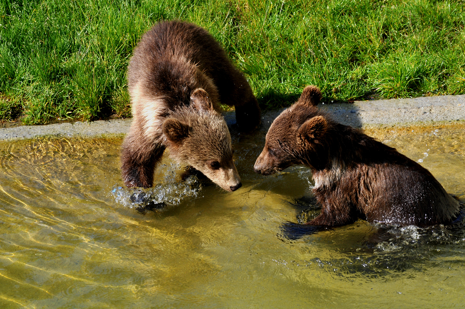 The near six months old bears Berna and Urs in the bearpark; Berne, Switzerland. In a follow-up examination end of October 2010 turned out that the two bear cubs are female. Urs has been renamed so in Ursina.